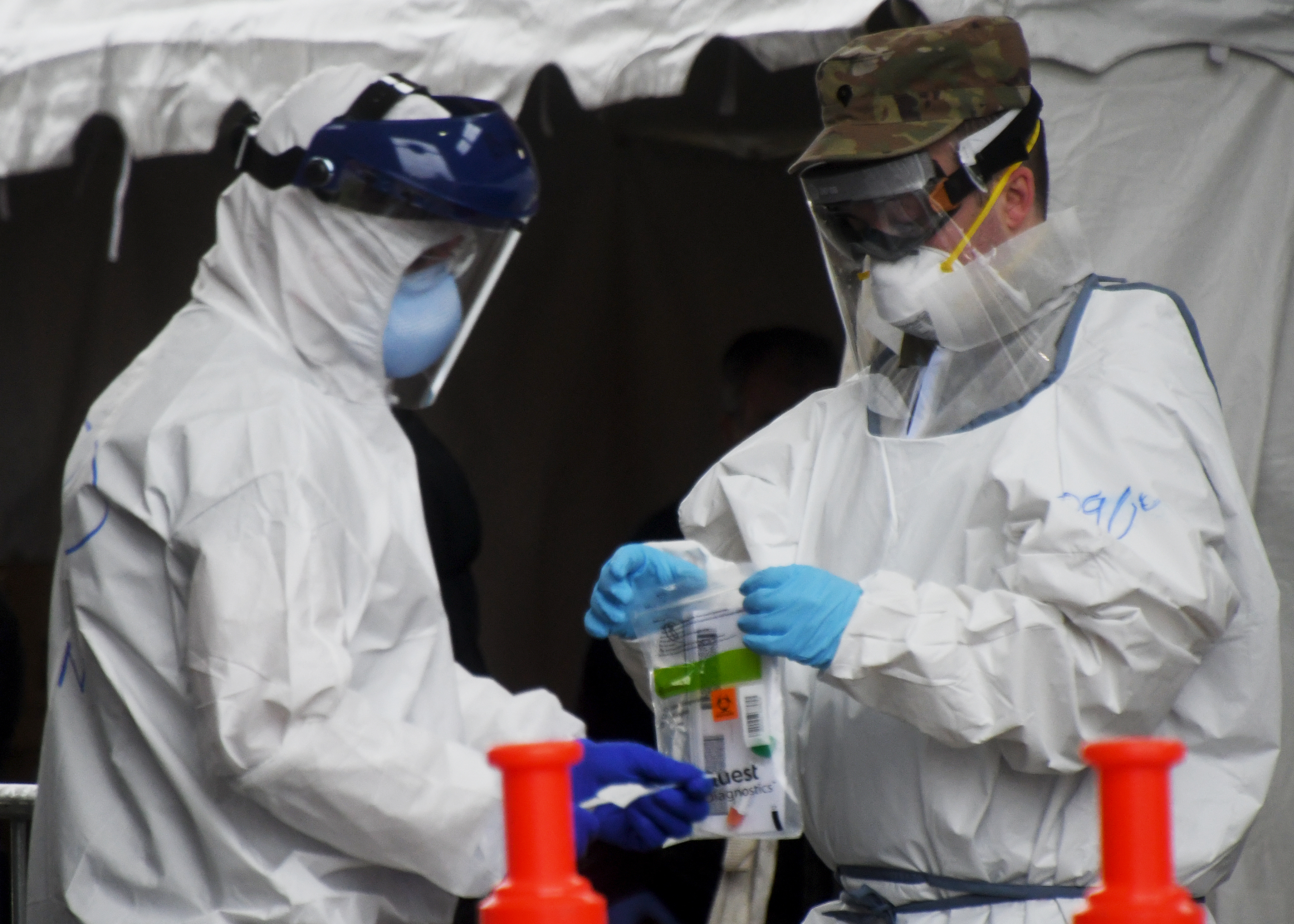 A Soldier from the 126th Aviation Battalion helps administer COVID-19 tests to first responders at a drive thru testing facility, April 9, 2020, on the Big E fairgrounds in West Springfield, Massachusetts. The soldiers worked with other Massachusetts agencies getting individuals tested. The tested individuals should have their results digitally within 48 hours. (U.S. Air National Guard photo by Airman 1st Class Sara Kolinski)